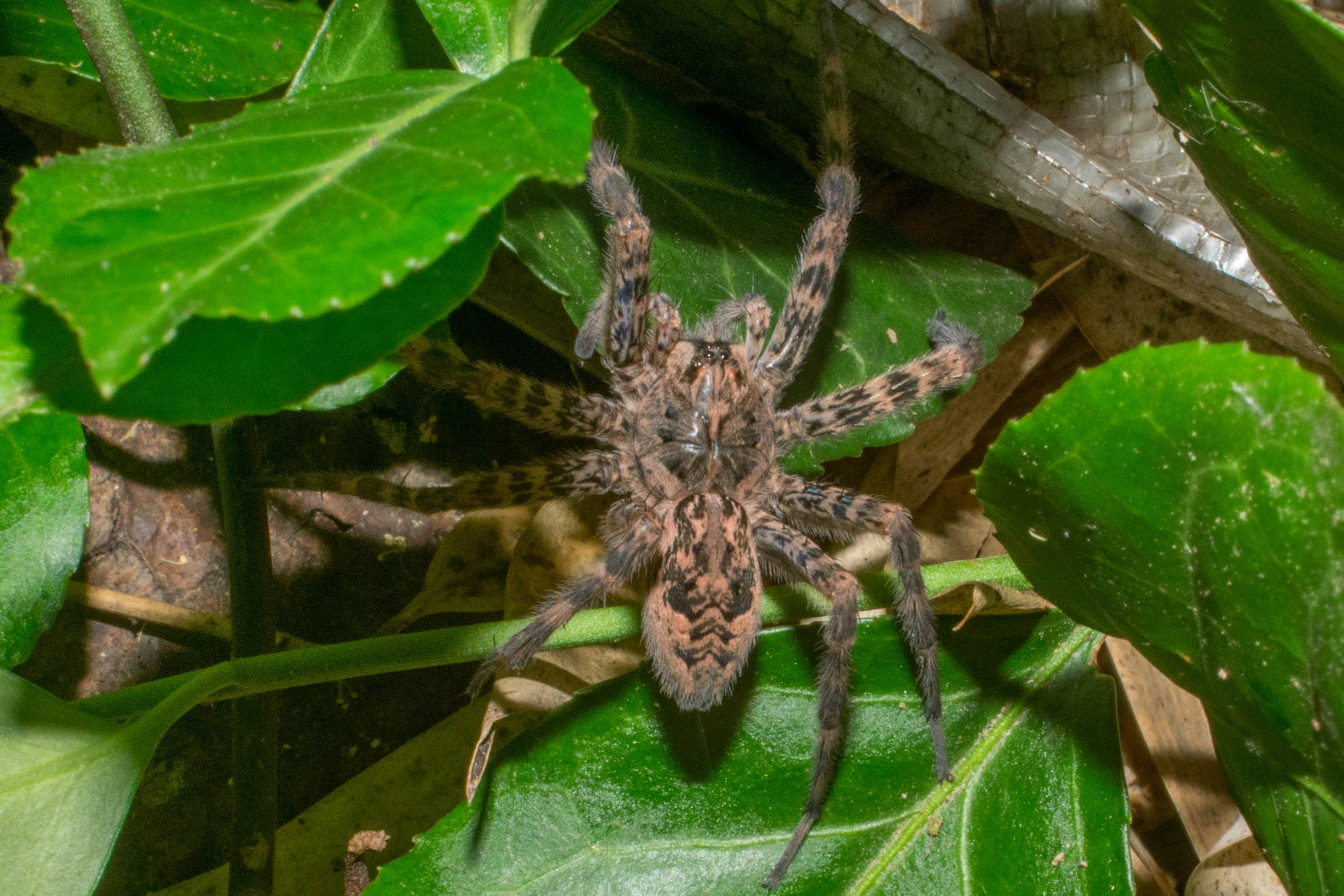 This Dark Fishing Spider was the size of my palm - Found under a pile of old firewood [Ohio, USA]